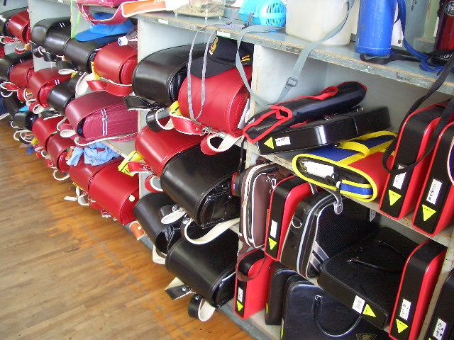 A typical 3rd grade classroom. These cubbies in the back of a classroom is the designated area for elementary-school-style backpacks or randoseru (black for boys, red/pink for girls) and recutangle bags (on the right) for caligraphy tools.school bag/ransel